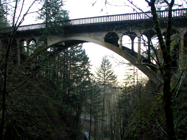 A bridge of the Historic Columbia River Highway as it crosses Shepperd's Dell, Oregon, United States.